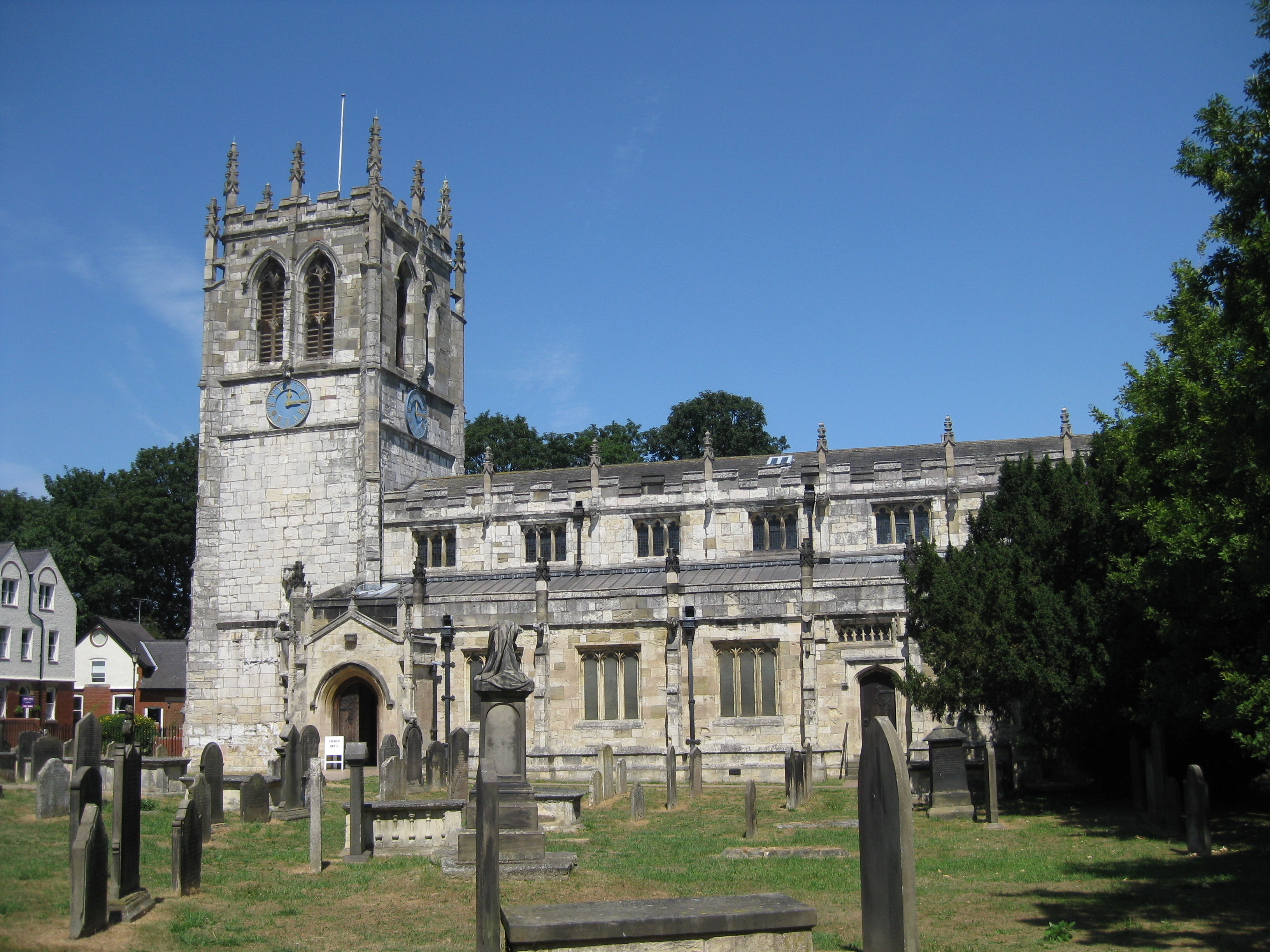 Church of St Mary the Virgin, Tadcaster. South face and cemetery.